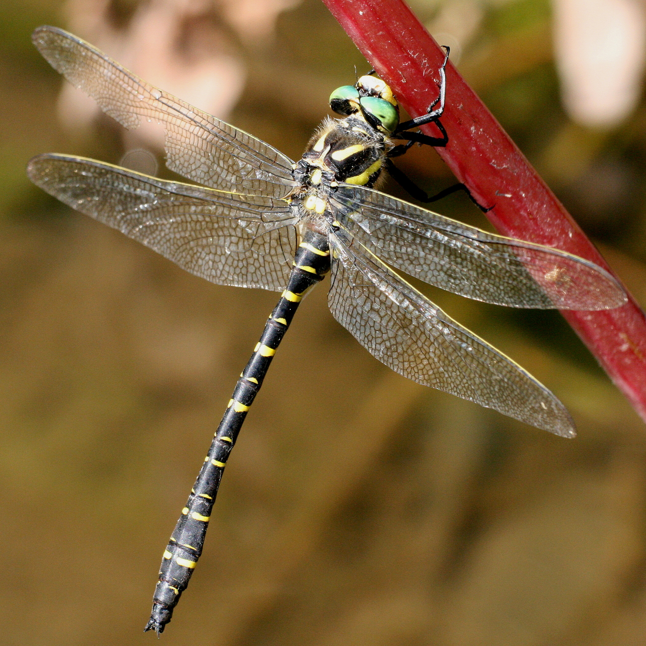 A male Golden-ringed Dragonfly (Cordulegaster boltonii), photographed in Wüstenrot